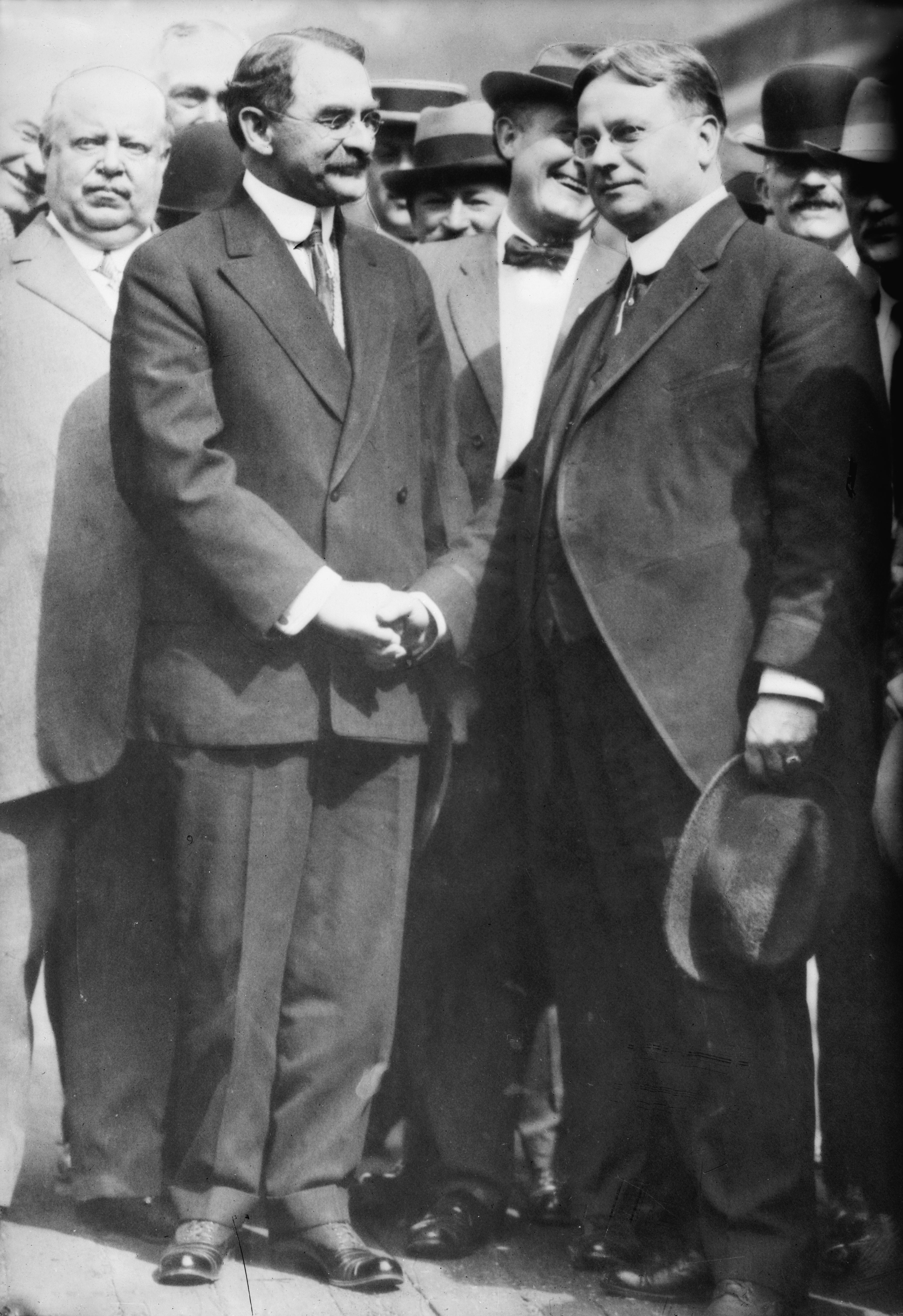 Bain News Service,, publisher. Arthur Lovett Garford (left) and Hiram Johnson (right) circa 1910-1913 [between 1910 and 1915] 1 negative : glass ; 5 x 7 in. or smaller. Notes: Title from unverified data provided by the Bain News Service on the negatives or caption cards. Forms part of: George Grantham Bain Collection (Library of Congress). Format: Glass negatives. Repository: Library of Congress, Prints and Photographs Division, Washington, D.C. 20540 USA, General information about the Bain Collection is available at Persistent URL